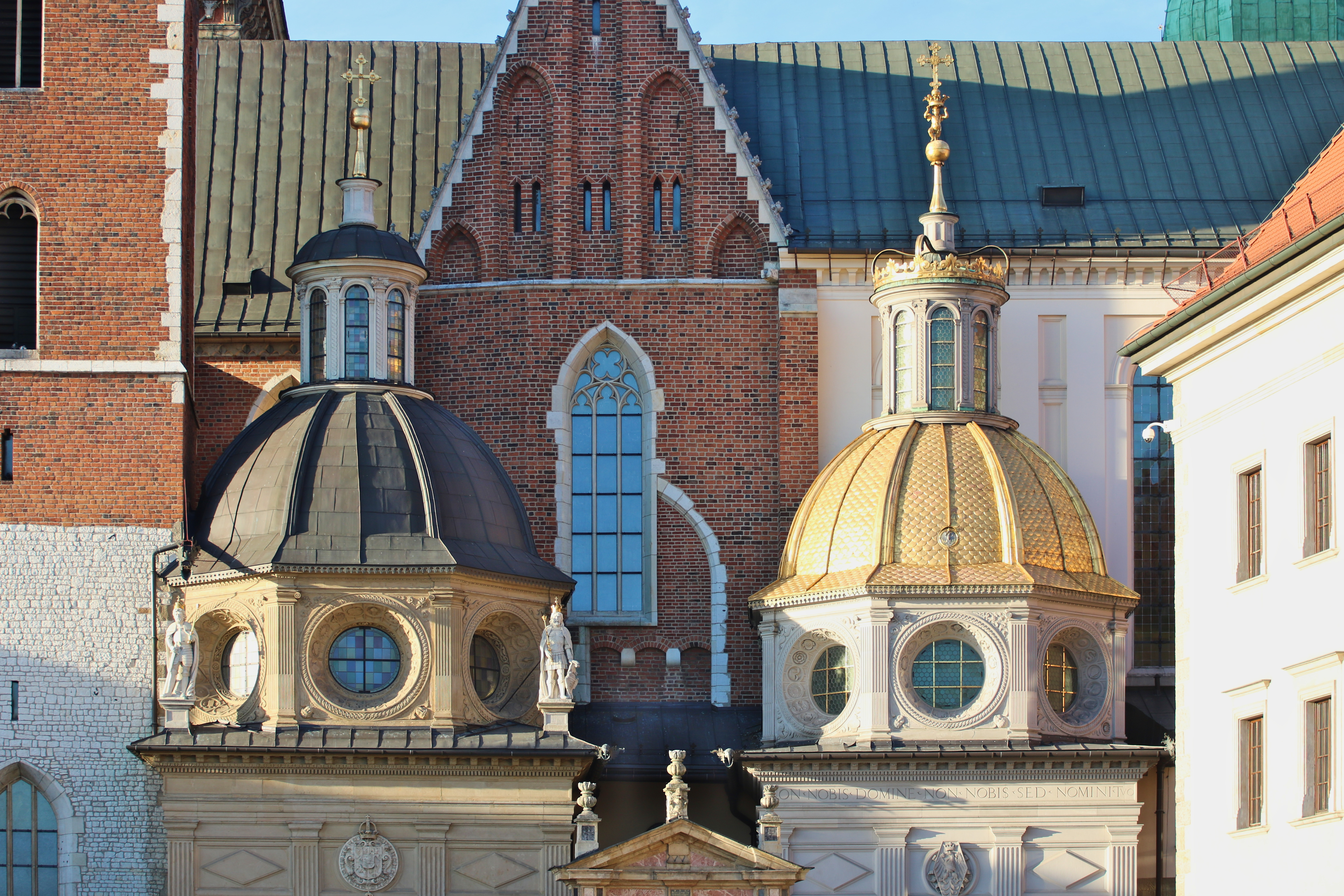 Krakow Wawel - Vasa Chapel, Sigismund Chapel